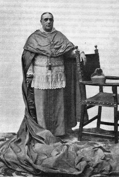 Enrique Almaraz y Santos